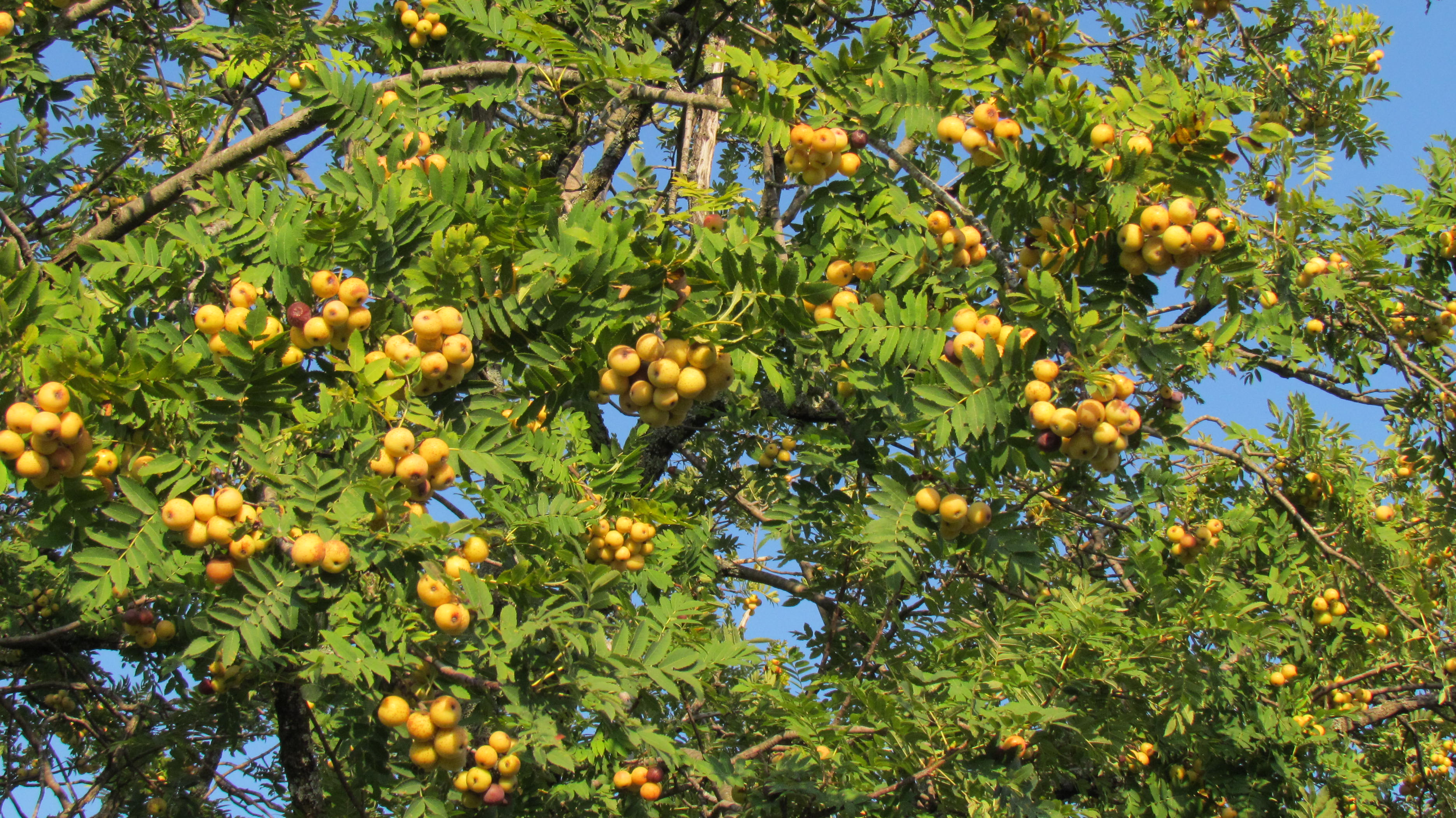 Service tree (Sorbus domestica) in the village of Stomaž, Sežana, Slovenia. Near the village grows at a very narrow strip of meadows at least twenty trees of very different ages. Trees do not grow every year as rich as the picture shows.